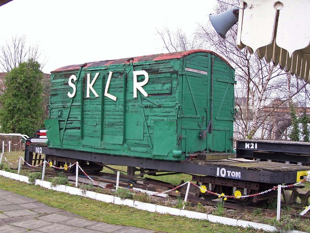 Museum Walk exhibit - SKLR Standing at Sittingbourne Viaduct station on the Sittingbourne and Kemsley Light Railway, the wagon is a Bagnall long wheelbase "flat wagon" no. 102. On it, is a British Railways box container which preceded the modern metal version seen all over the world on trucks and trains and ships.